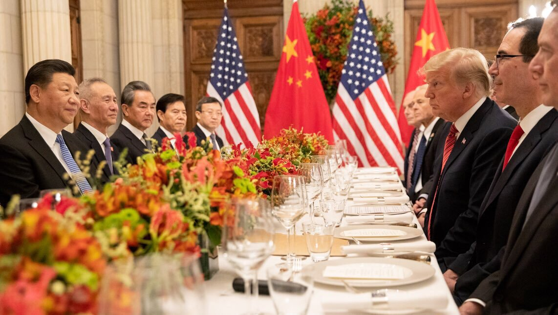 “Very importantly, President Xi, in a wonderful humanitarian gesture, has agreed to designate Fentanyl as a Controlled Substance, meaning that people selling Fentanyl to the United States will be subject to China’s maximum penalty under the law.”